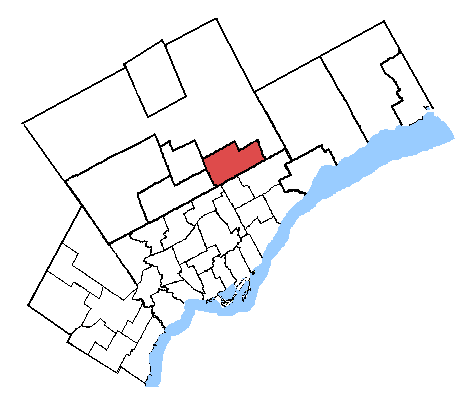 Map of the Markham—Unionville electoral district. Based on Earl Andrew's maps, created by SimonP.